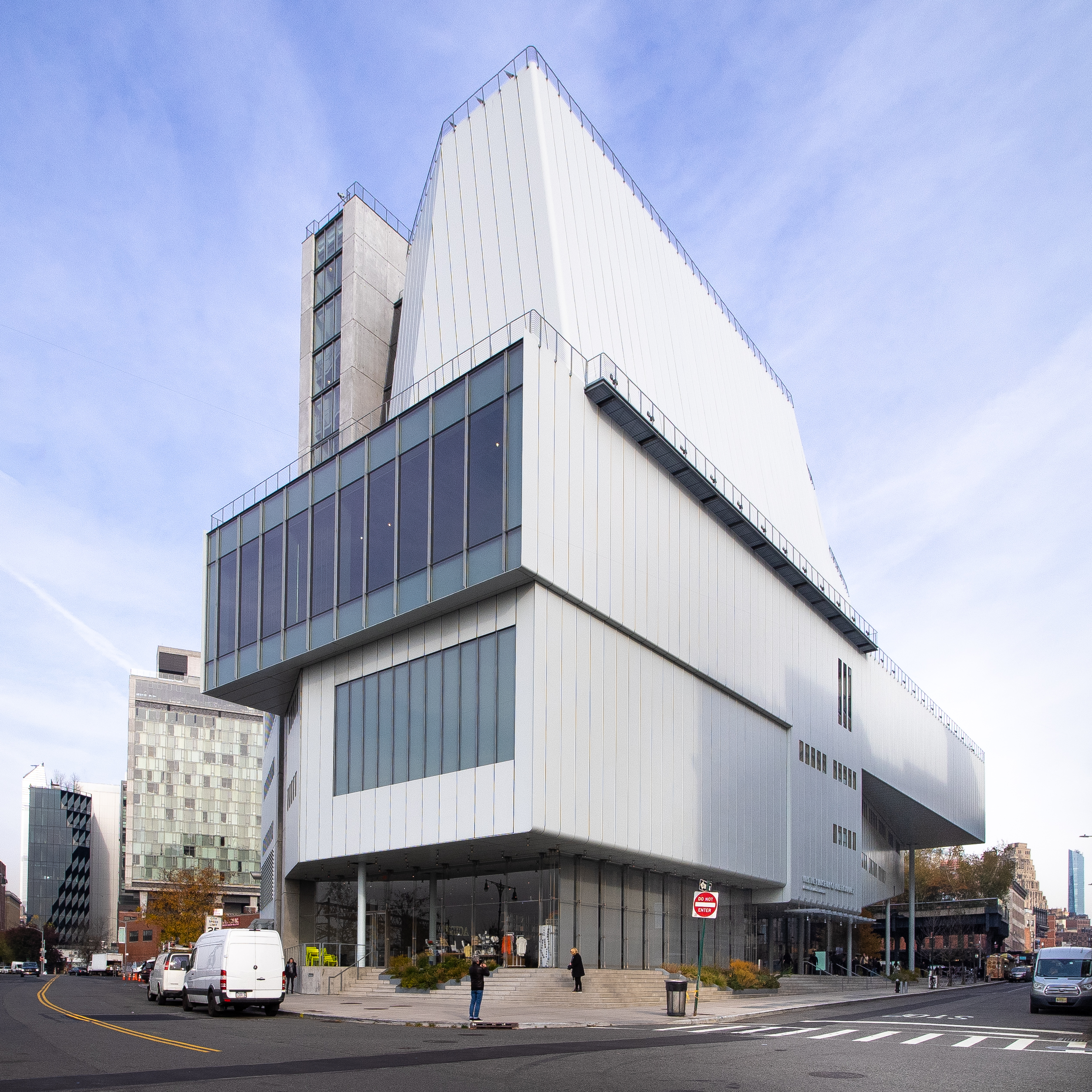 Chelsea, Manhattan, NYC